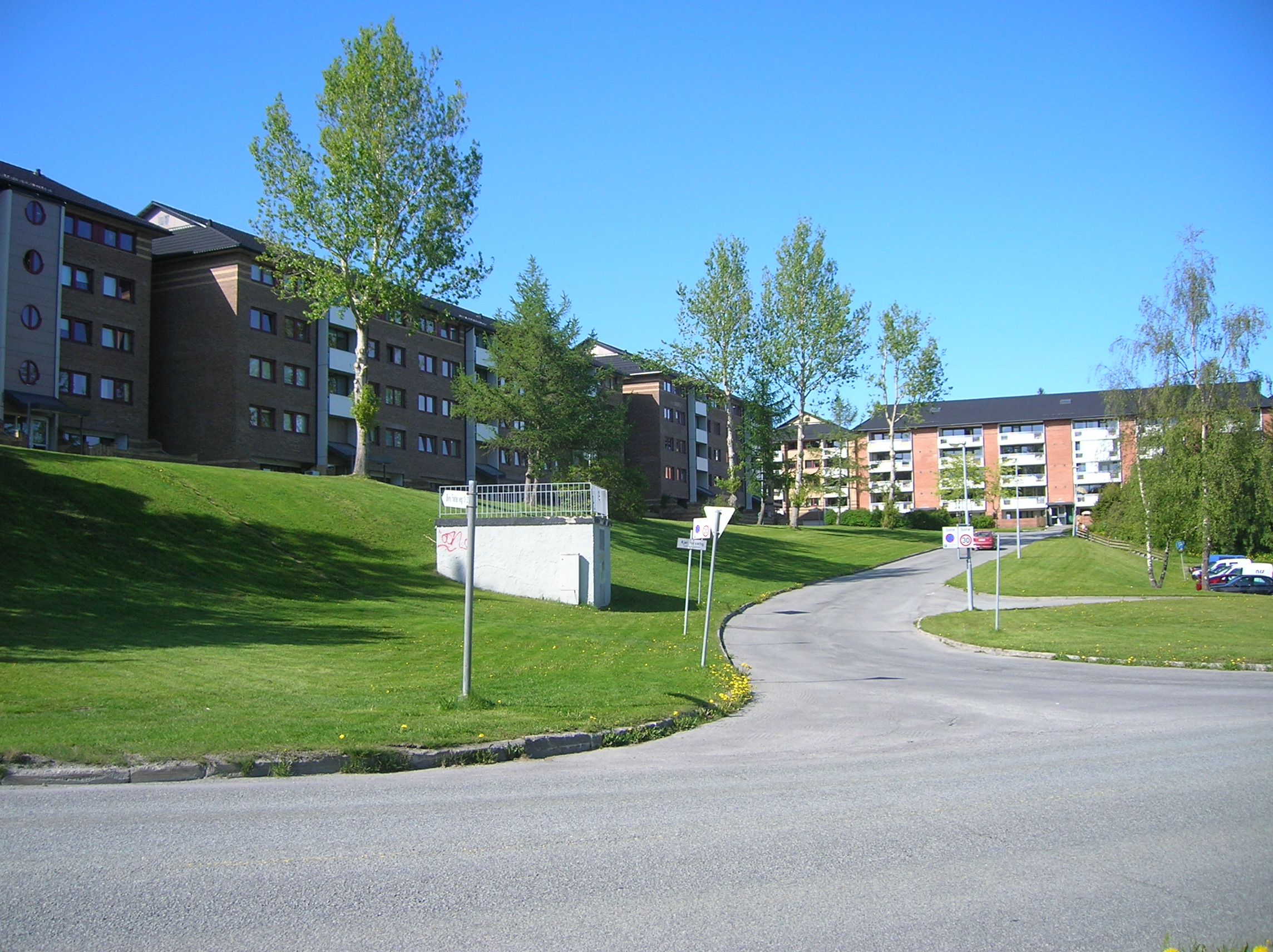 Picture of the blocks of flats at Flatåsen, Trondheim, Norway.